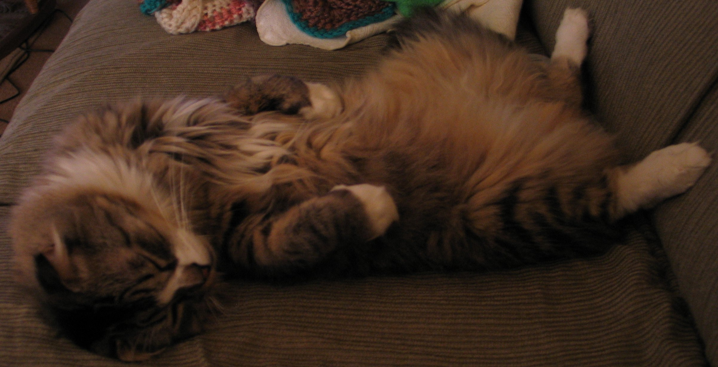 Longhaired Scottish fold named Pearl.